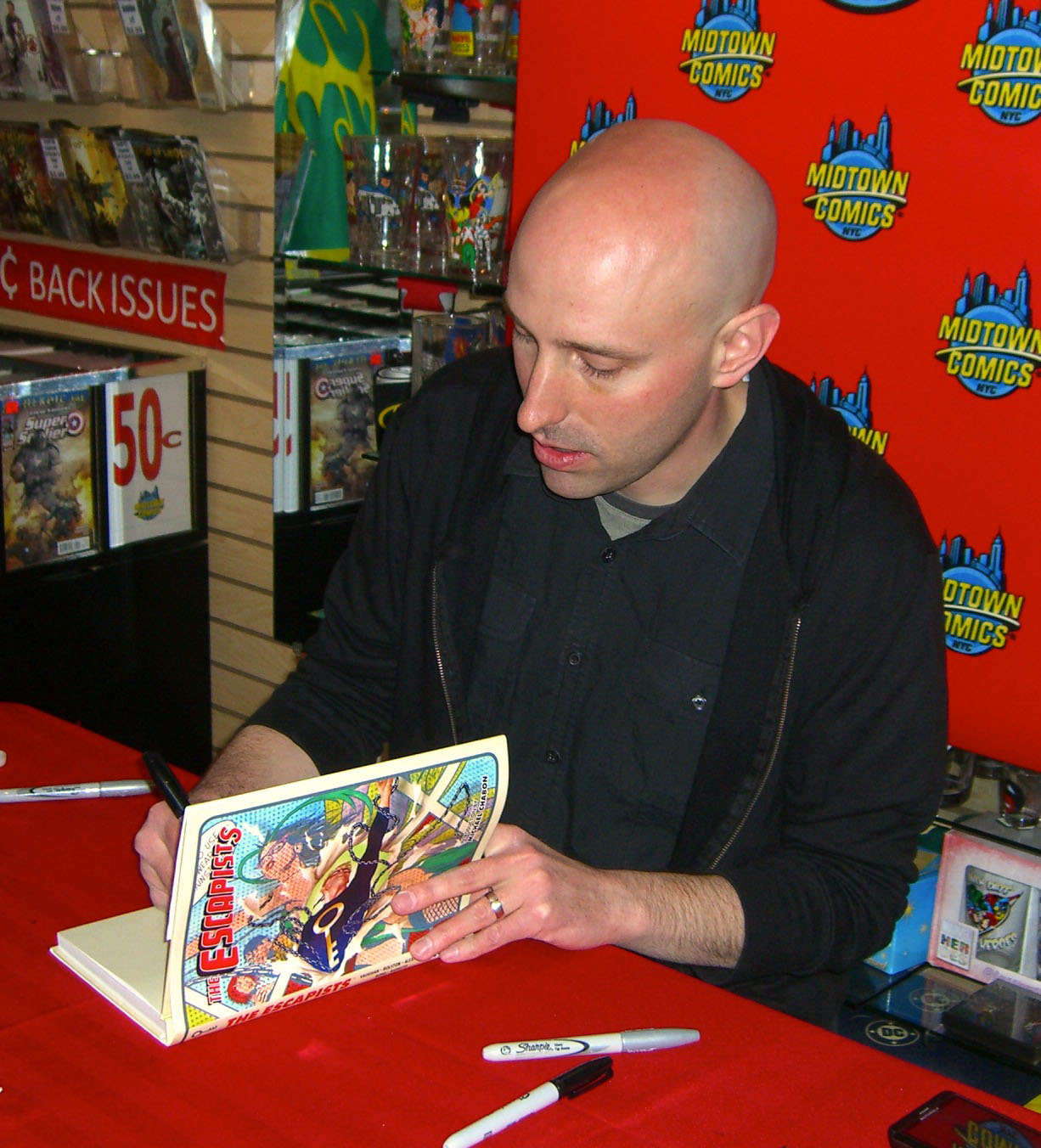 Comics and television writer Brian K. Vaughan at a March 15, 2012 signing for Saga #1 at Midtown Comics Downtown in Manhattan. In the photo, Vaughan is signing a copy of The Escapists, one of his previous works. This photo was created by Luigi Novi. It is not in the public domain, and use of this file outside of the licensing terms is a copyright violation.